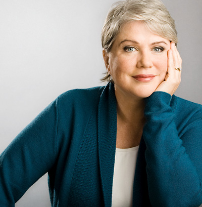 Portrait of Julia Sweeney